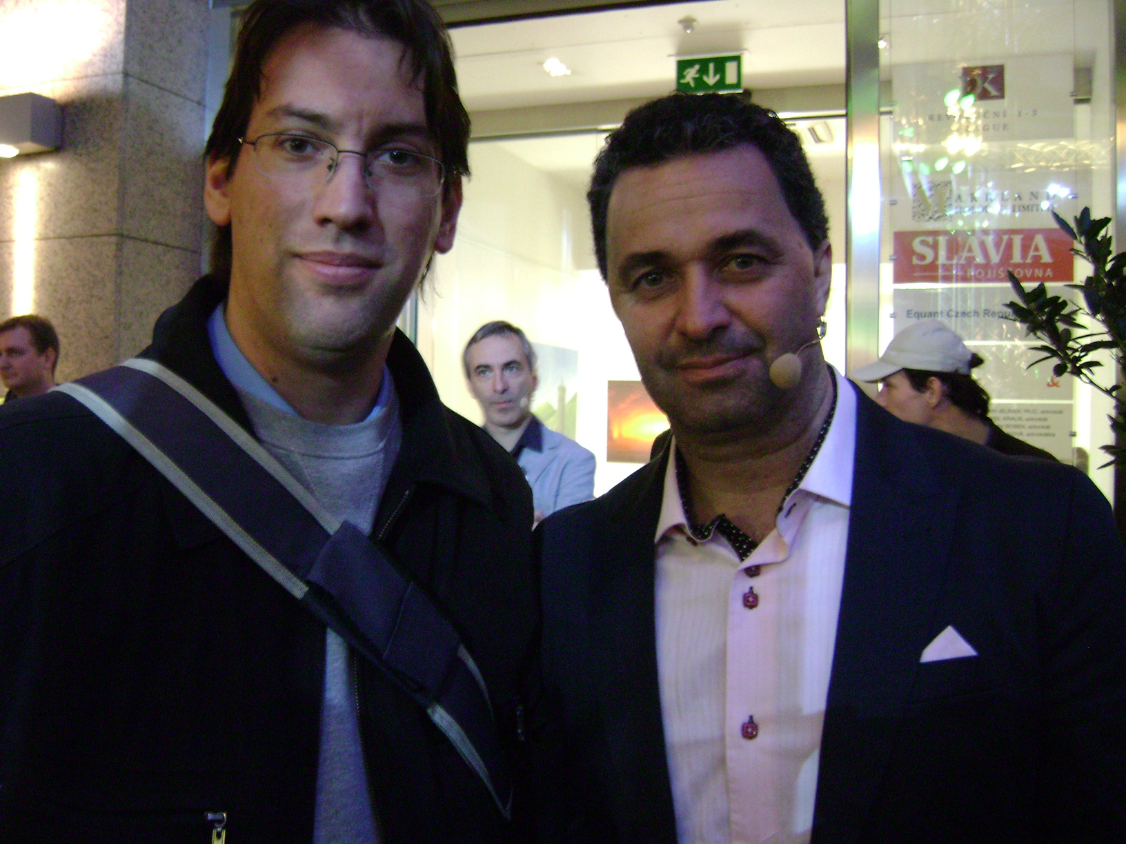 User Eino81 and Martin Dejdar, Czech actor.